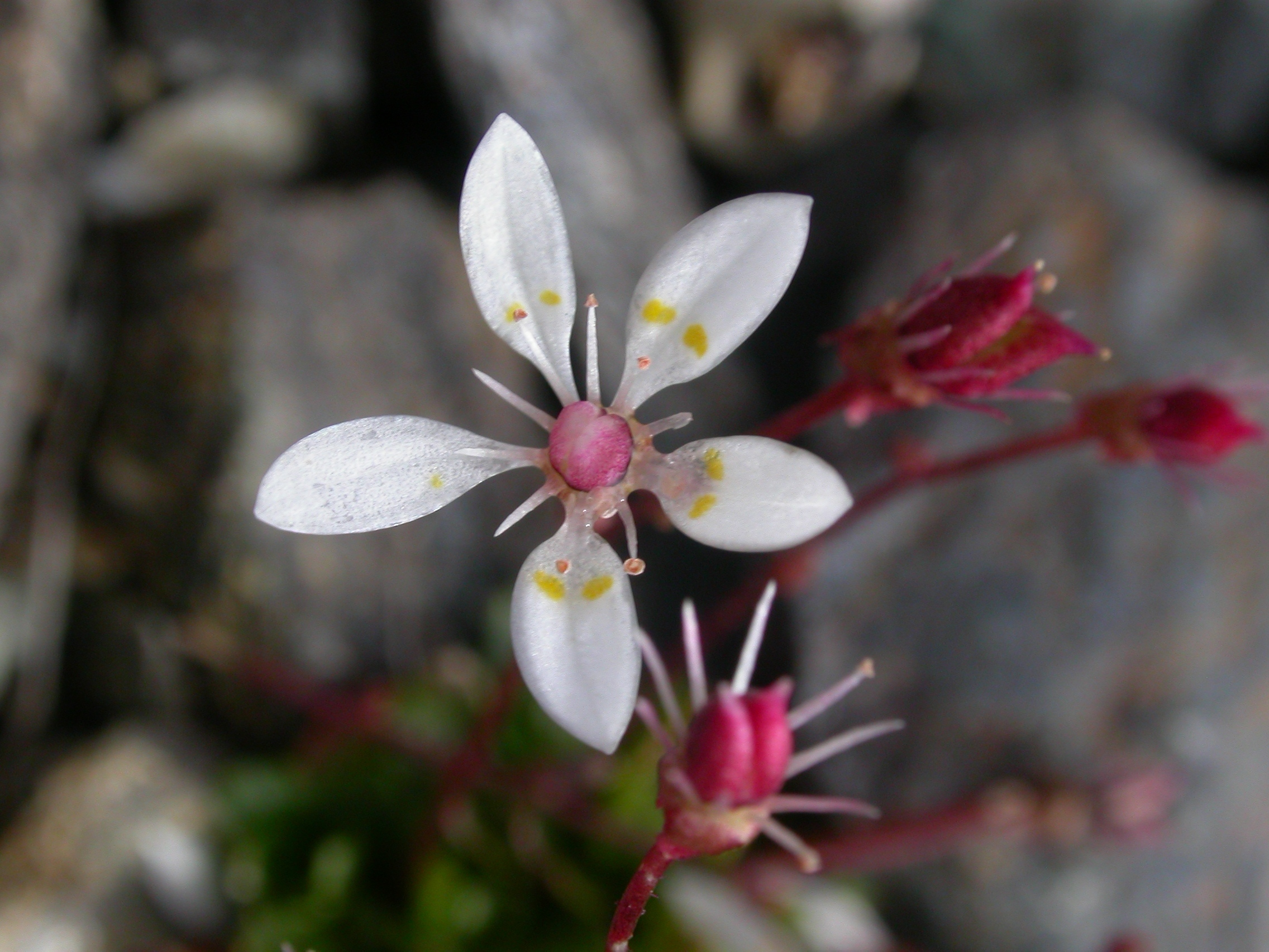 Micranthes stellaris Zermatt, Riffelberg (Kanton Wallis, Switzerland), 2500 m Author: Barbara Studer – own photograph Date: 2.08.06